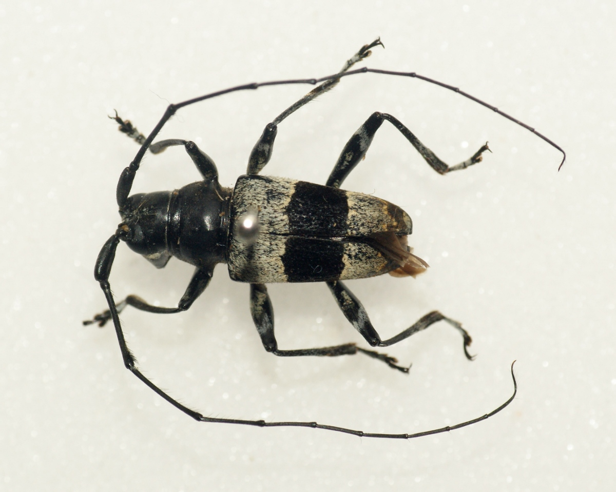 Cerambycidae - In collection